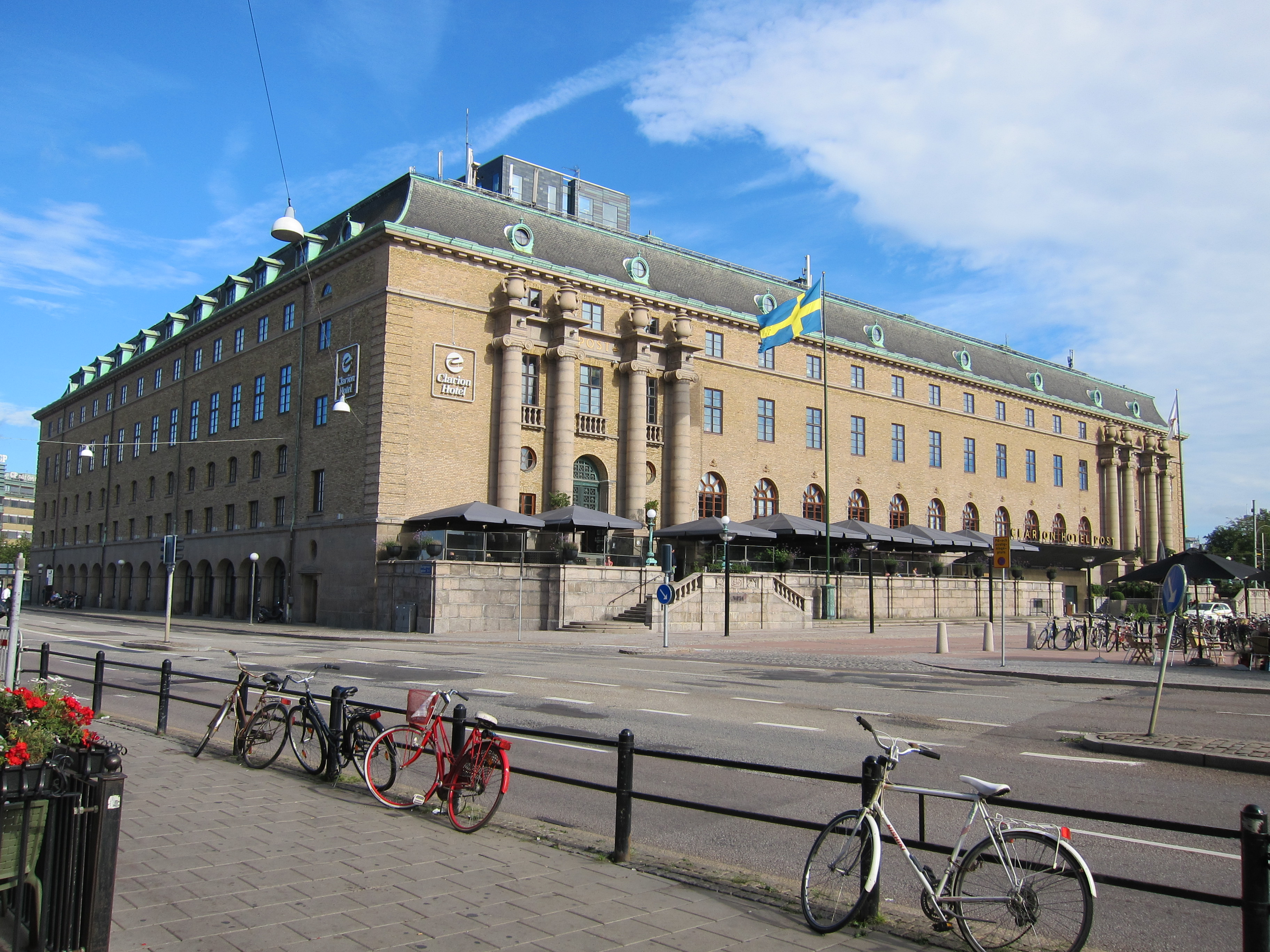 The Clarion Hotel Post is a new hotel in the old cental postal building in Gothenburg, Sweden